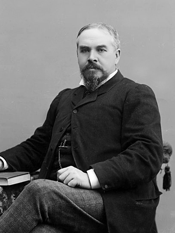 John Ballance, politician, editor of the Evening Herald in Wanganui and 14. Prime Minister of New Zealand.